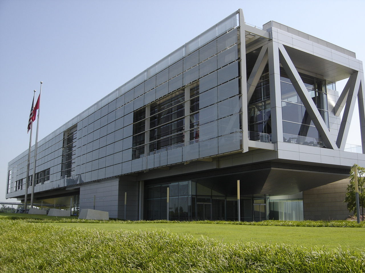 Bill Clinton Presidential Library, Little Rock